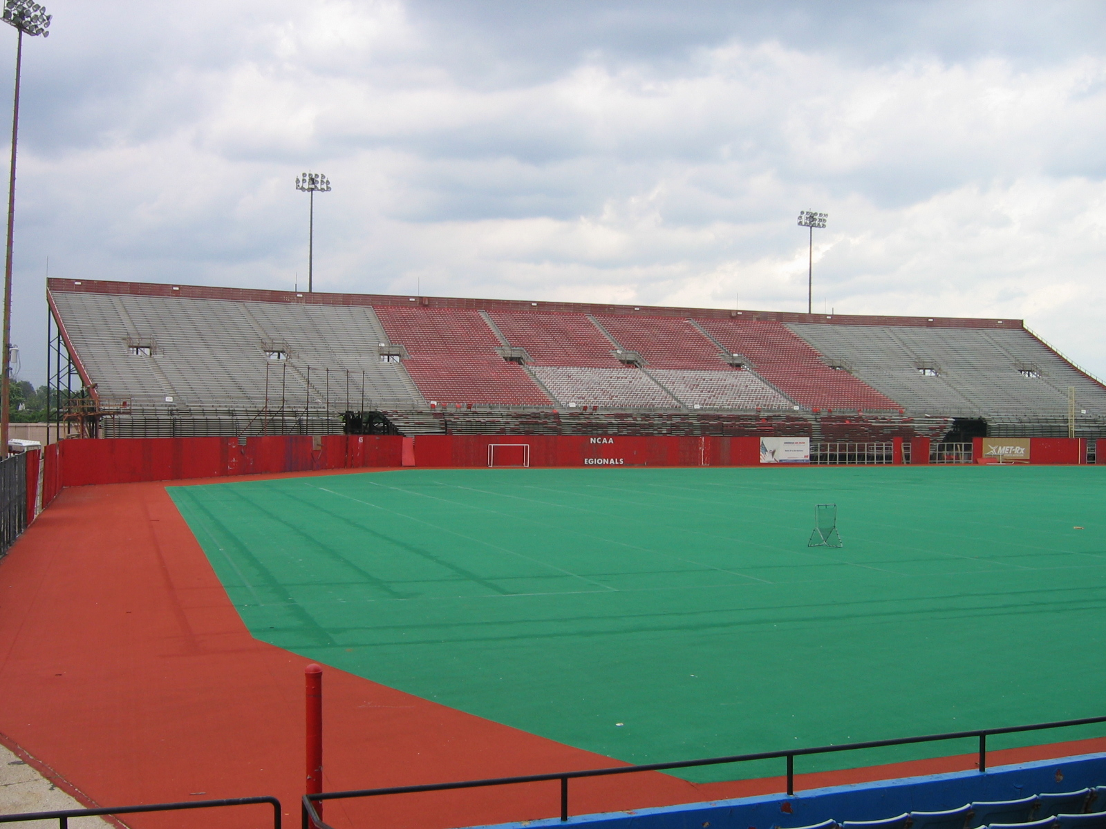 Football & Basketball Facilities Louisville Fairgrounds Baseball Park